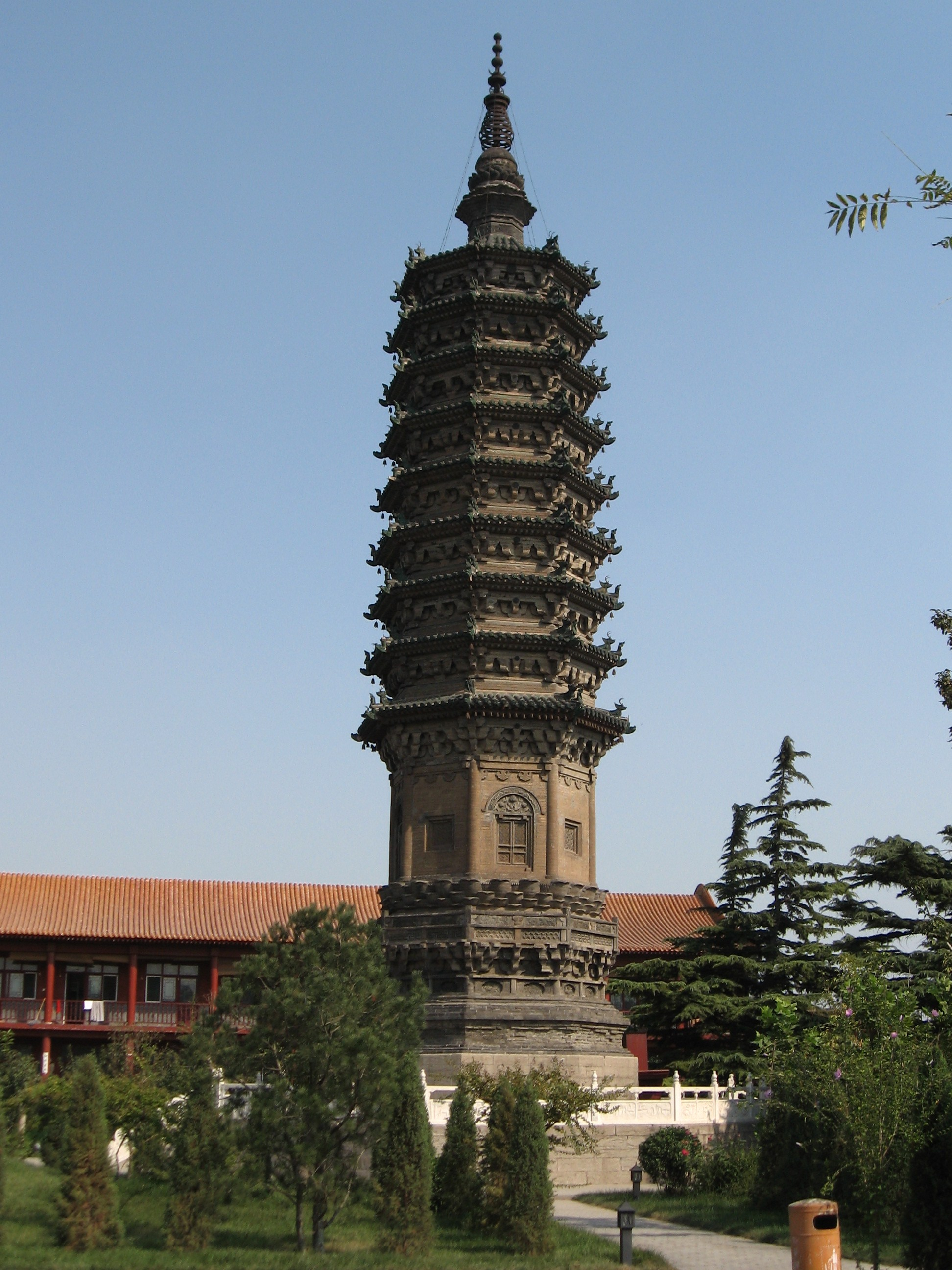 Chengling pagoda in Linji monastery in Zhengding, Hebei, China. It was built from 1161 to 1189 during the Jurchen-controlled Jin Dynasty in the north.